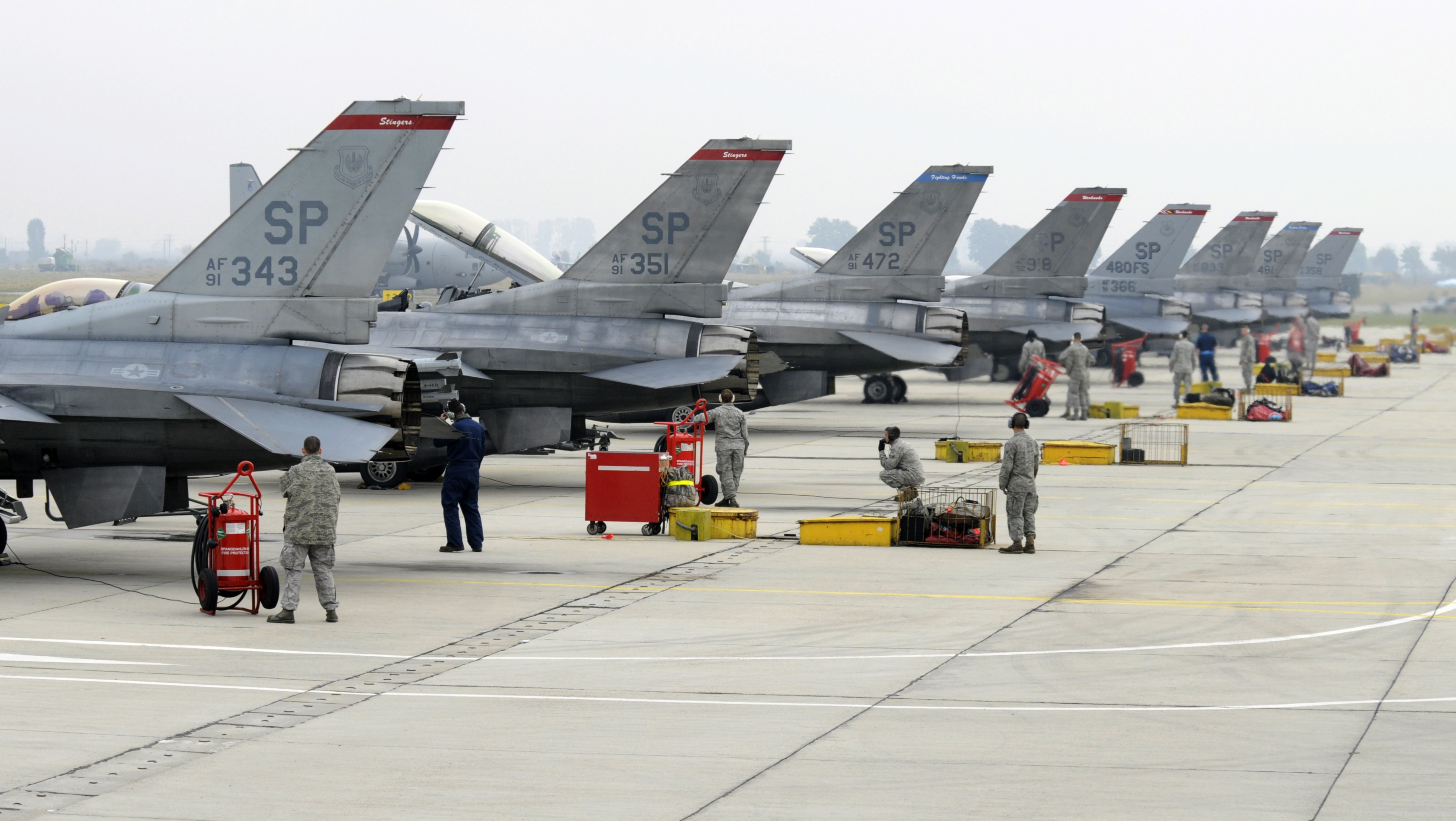 A U.S. Air Force General Dynamics F-16C Fighting Falcons from the Spangdahlem Air Base's 480th Fighter Squadron are lined up on the flightline before take-off on Graf Ignatievo Air Force Base, Bulgaria, during Operation "Thracian Star" on 13 October 2010. The operation was a three-week combined exercise that gave both U.S. and Bulgarian airmen the opportunity to train together and strengthen relationships. Note that the 480th FS F-16s still wear a mixture of markings of the 480th FS, and the 22nd and 23rd FS, which preceeded the 480th FS at Spangdahlem.